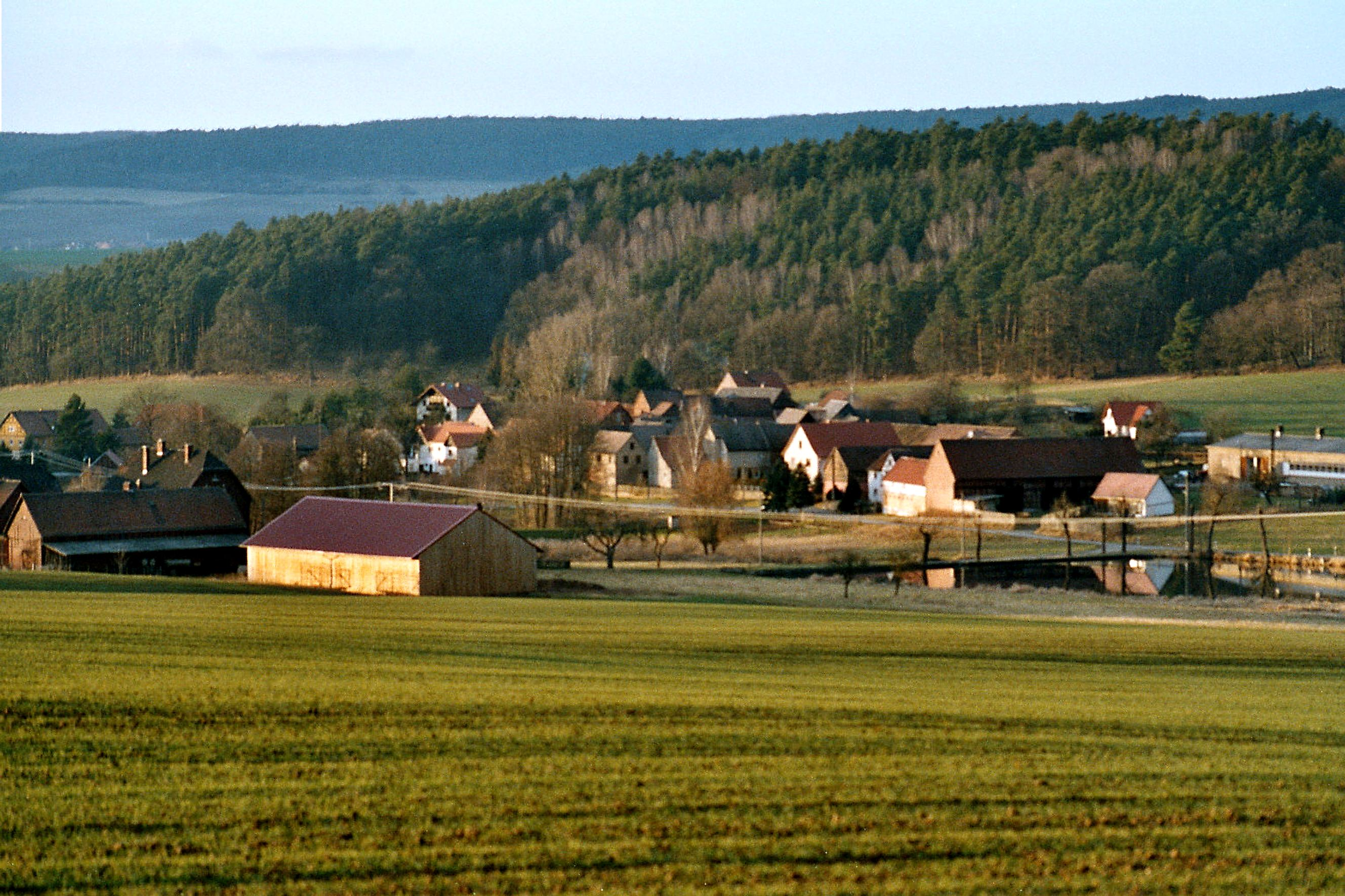 View to the hamlet Lotschen